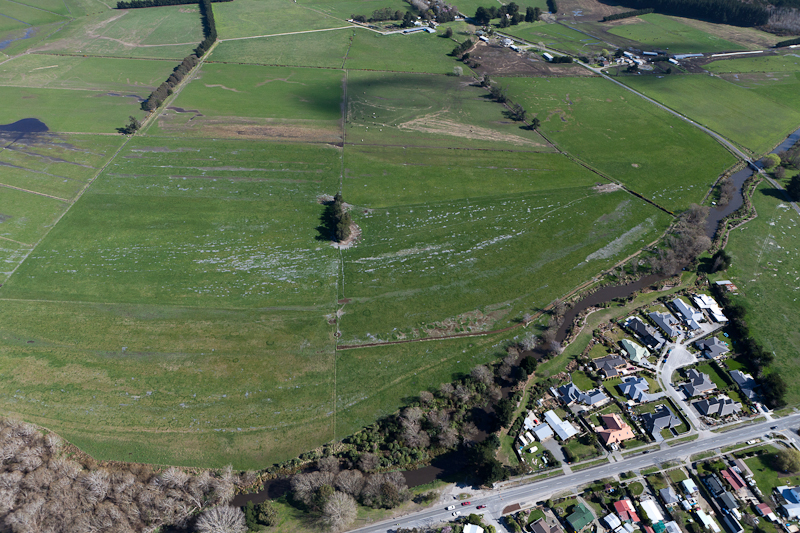 Spencerville and the Styx River two days after the September 2010 earthquake.